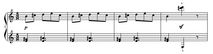 Bartok 3e danse